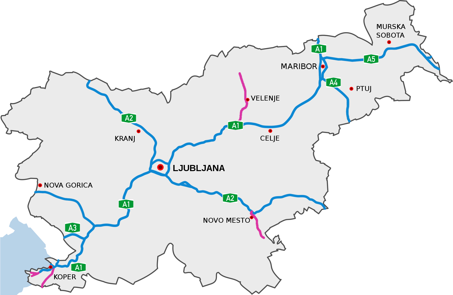 Upgraded Versionen (Aug. 2020) of the old Slovenian Motorway map from 2011 (